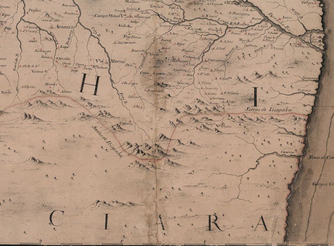 Ceará/Piaui - 1761